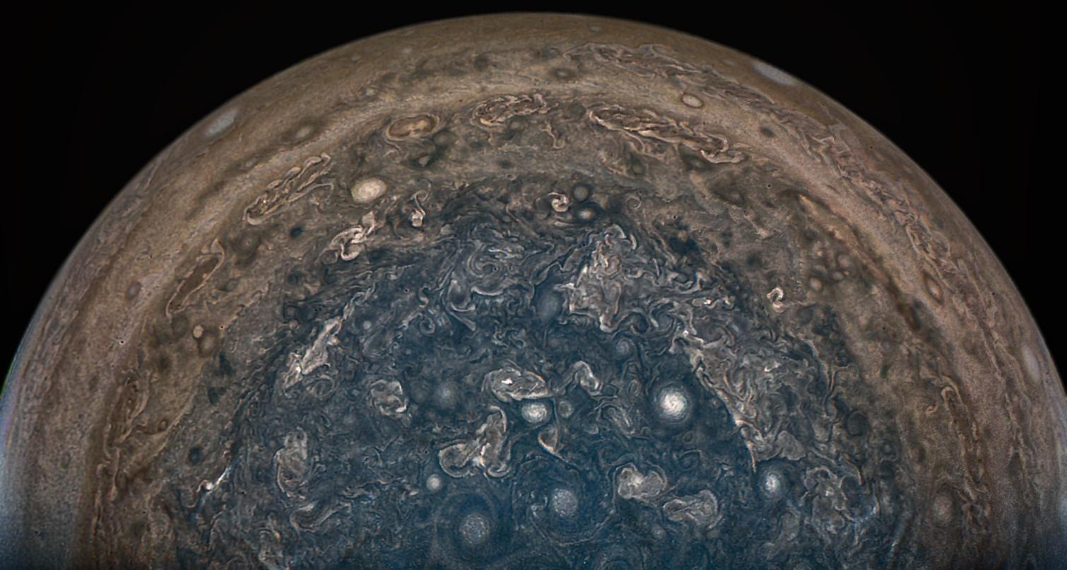 NASA's Juno spacecraft soared directly over Jupiter's south pole when JunoCam acquired this image on February 2, 2017 at 6:06 a.m. PT (9:06 a.m. ET), from an altitude of about 62,800 miles (101,000 kilometers) above the cloud tops. From this unique vantage point we see the terminator (where day meets night) cutting across the Jovian south polar region's restless, marbled atmosphere with the south pole itself approximately in the center of that border. The terminator is offset a bit because it's summer in Jupiter's southern hemisphere. However, the tilt of Jupiter's spin axis is only 3 degrees, much less than Earth's 23.5-degree tilt. This image was processed by citizen scientist John Landino. This enhanced color version highlights the bright high clouds and numerous meandering oval storms. Away from the polar region, the seeming chaos of Jupiter's polar region gives way to the more familiar color banding that Jupiter is known for. JunoCam's raw images are available at for the public to peruse and process into image products. NASA's Jet Propulsion Laboratory manages the Juno mission for the principal investigator, Scott Bolton, of Southwest Research Institute in San Antonio. Juno is part of NASA's New Frontiers Program, which is managed at NASA's Marshall Space Flight Center in Huntsville, Alabama, for NASA's Science Mission Directorate. Lockheed Martin Space Systems, Denver, built the spacecraft. Caltech in Pasadena, California, manages JPL for NASA. More information about Juno is online at and